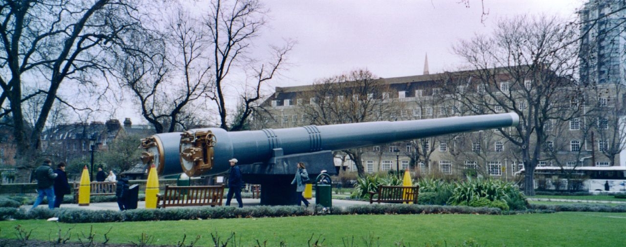 Right side view of British 15 inch naval guns from HMS Ramillies (left gun, furthest from camera) and HMS Resolution (right gun, closest to camera), outside the Imperial War Museum, London.